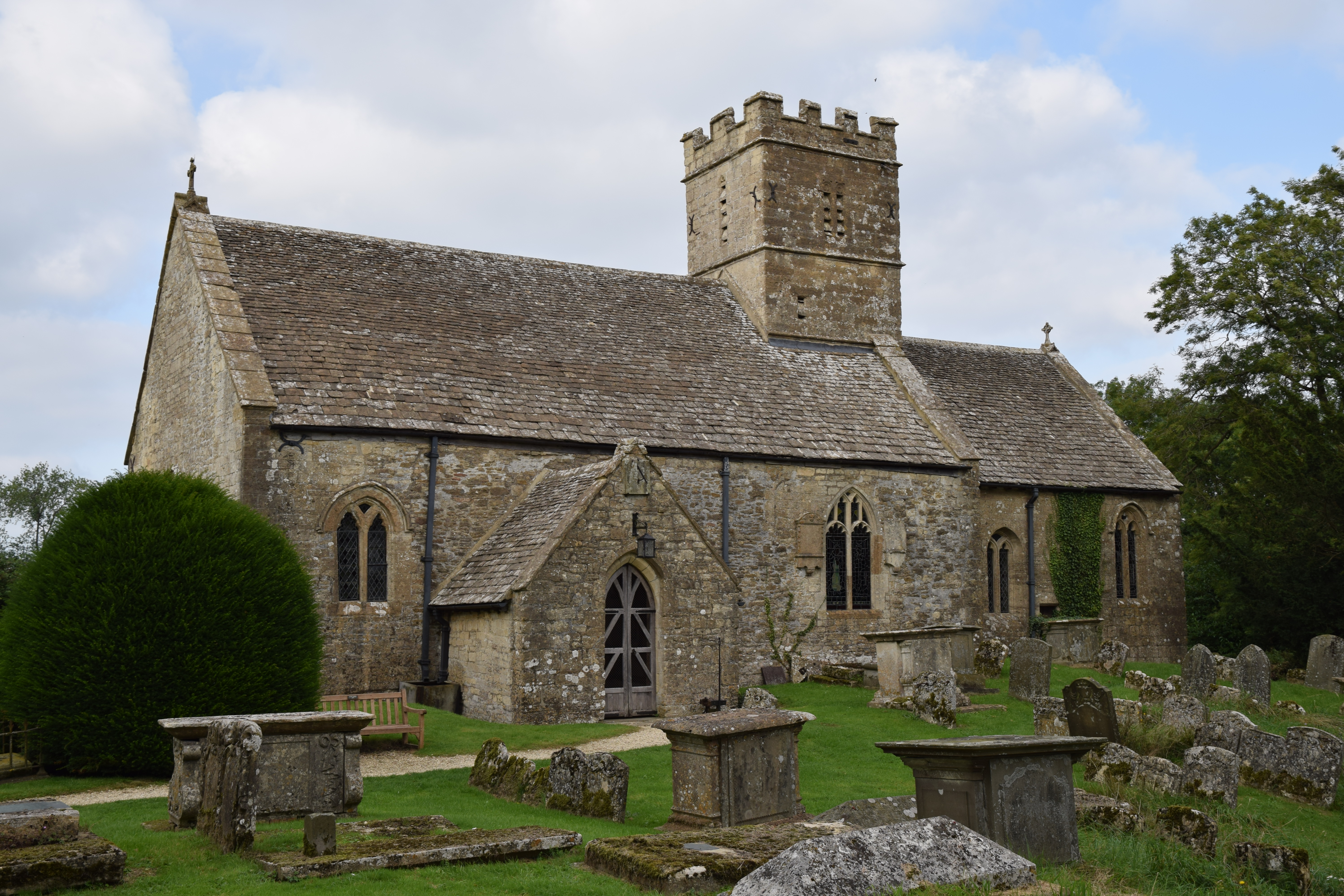 Brimpsfield Church (St. Michael), Gloucestershire, 7 September 2016. Early 12th Century Norman nave, 13th Early English chancel, 14th Century Decorated south porch, 15th Century Perpendicular tower, 19th Century Victorian north vestry. Pictured is the south elevation.